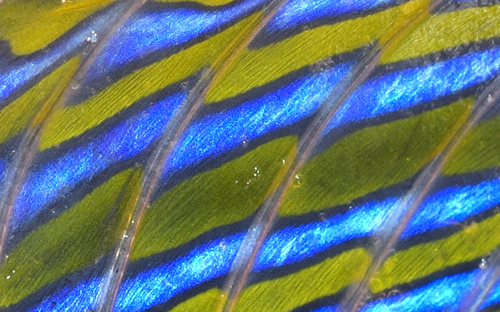 Close-up of the dorsal fin of a male dragonet